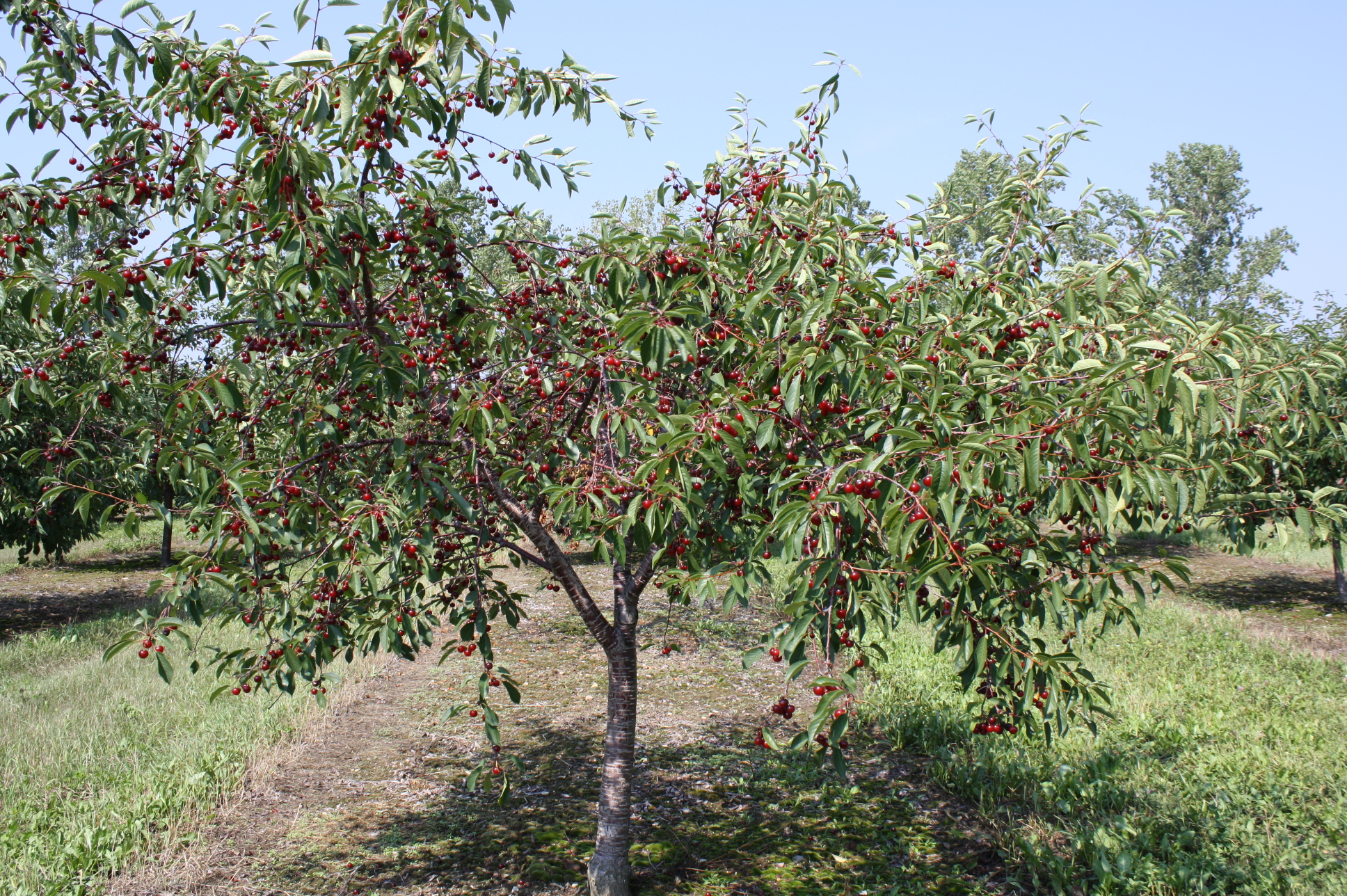 A cherry tree in Door County, Wisconsin. Cherry orchards are common around [Sturgeon Bay, Wisconsin]. This tree is the Balaton variety as indicated by the orchard. Information on Balaton's history